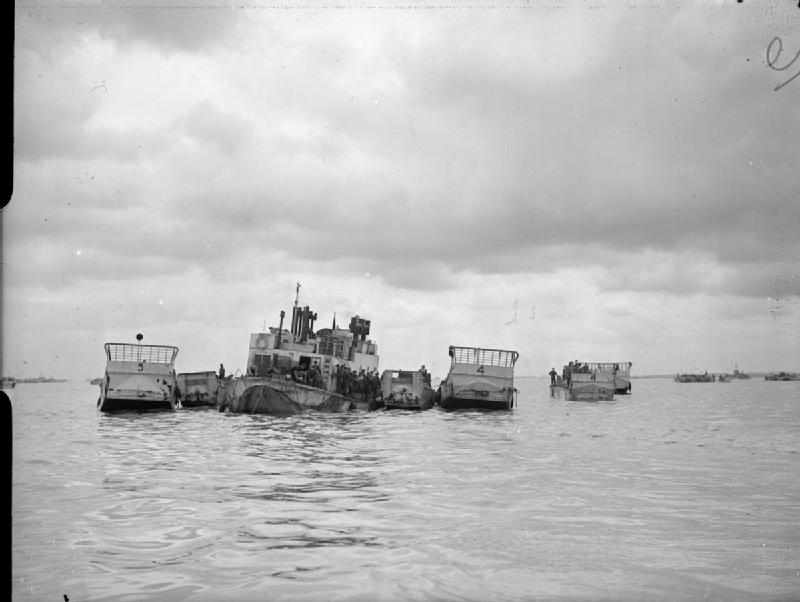 The Royal Navy during the Second World War- Operation Overlord (the Normandy Landings), June 1944 Crews of small craft lining up on the landing barge kitchen for the midday meal to be served through a hatchway. Other craft are waiting their turn to come alongside in the bay of Seine. This is the first landing barge kitchen, a converted Thames barge, to arrive off the Normandy beachhead.